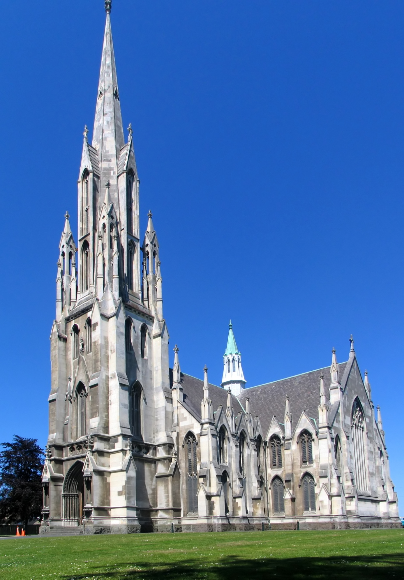 First (Presbyterian) Church in Dunedin, New Zealand. Two photos stitched together with Hugin, noise reduction with Neat Image.